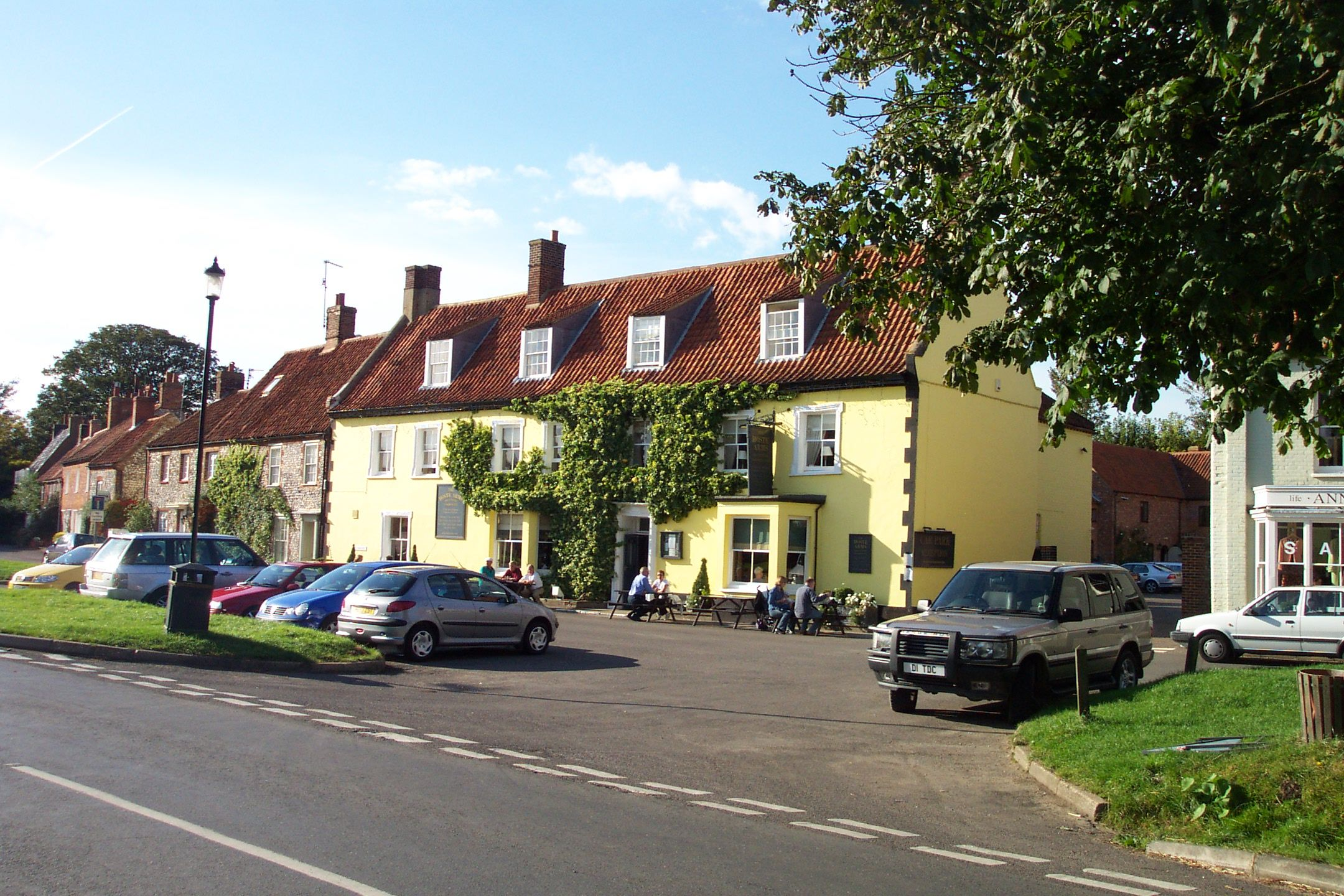 The Hoste Arms on the village green in Burnham Market. For more information see the Wikipedia article Burnham Market.